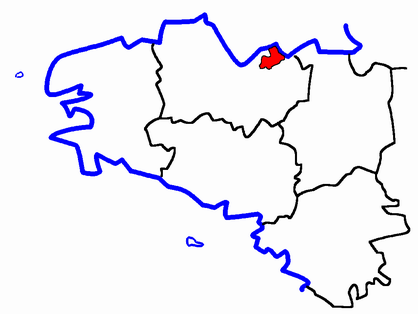 Description: Map for localisazion of cantons of Bretagne region in France Source: made by Hervé Tigier in april 2005 from another large map (published in 1990)